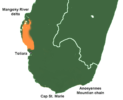 Distribution of Uratelornis chimaera (orange). Own work based on Seddon, Nathalie; Joseph A. Tobias (2007). "Population size and habitat associations of the Long-tailed Ground-roller Uratelornis chimaera". Bird Conservation International 17 (1): 1-12. Cambridge: BirdLife International.; base map File:Madagascar spiny thickets.png